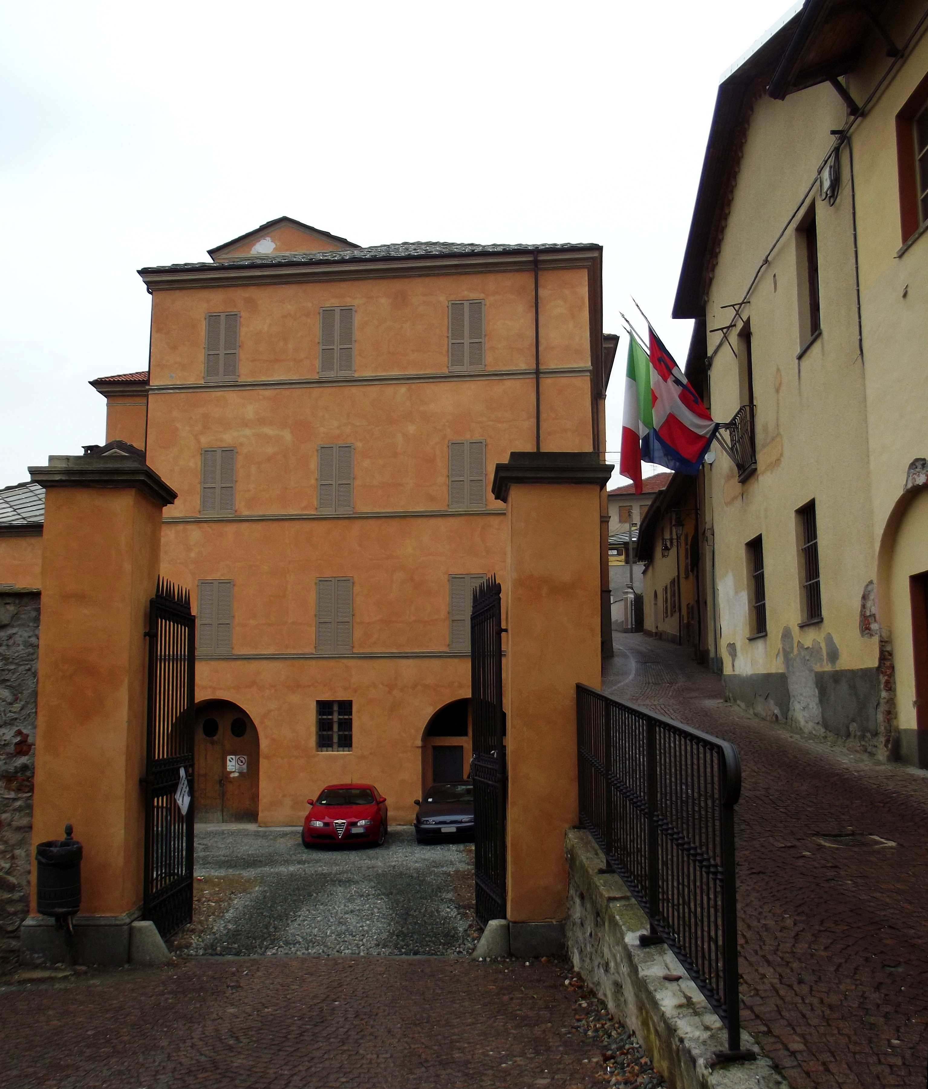 Lanzo (TO, Italy): town hall